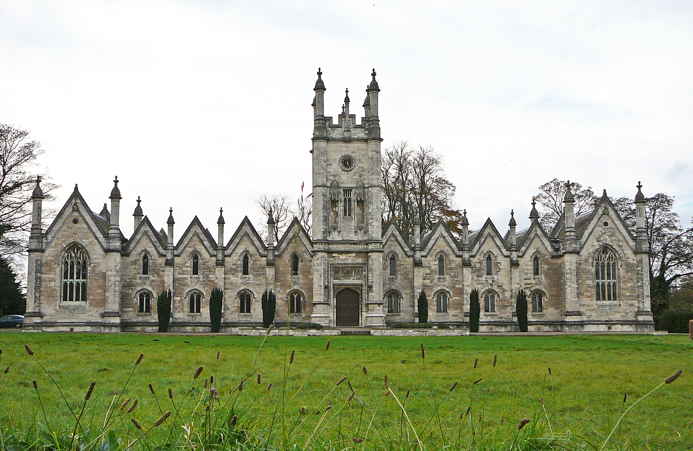 1843-5 by George Fowler Jones for Mary and Elizabeth Gascoigne as a memorial to their father and brothers. Now offices. Long ashlar front in Perp Gothic style, with elaborate central tower, many steeply pitched gables, and many outsize octagonal pinnacles. Projecting cross-wings with traceried windows, housing the chapel (l) and refectory (r), the domestic intermediate parts two-storied. Leach & Pevsner, The Buildings of England: Yorkshire West Riding (Leeds, Bradford and the North)